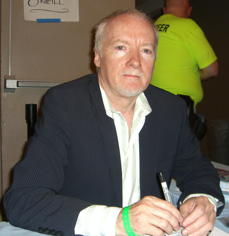 Comics creator Kevin O'Neill at the Big Apple Summer Sizzler in Manhattan, June 13, 2009. This photo was created by Luigi Novi. It is not in the public domain, and use of this file outside of the licensing terms is a copyright violation.